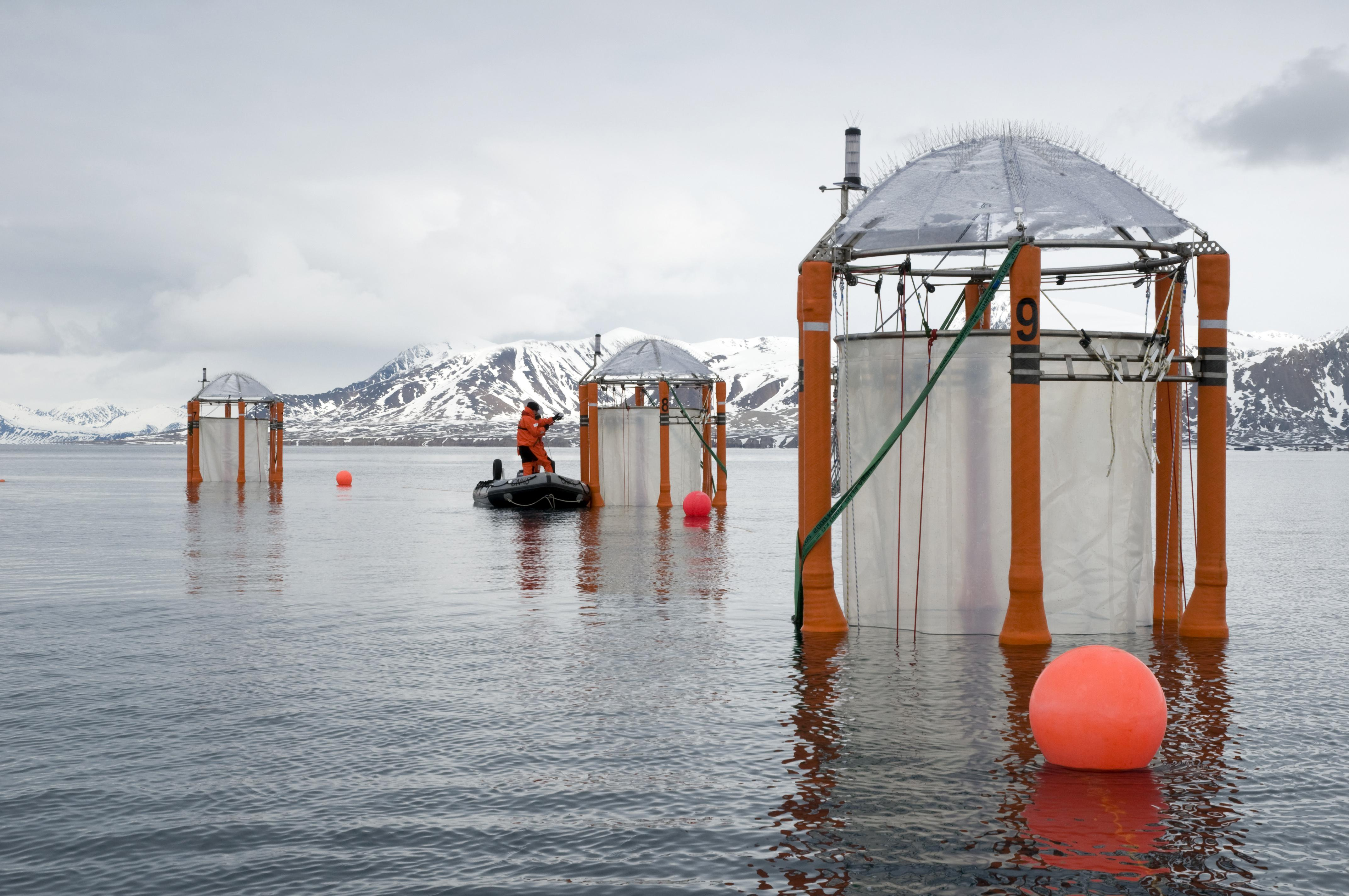 Scientists sampling mesocosms during an outdoor experiment investigating the reactions of marine organisms to ocean acidification at Kongsfjord, Ny-Alesund, Svalbard.